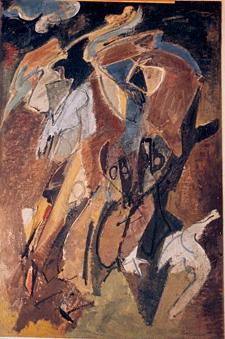 Edmond Boissonnet